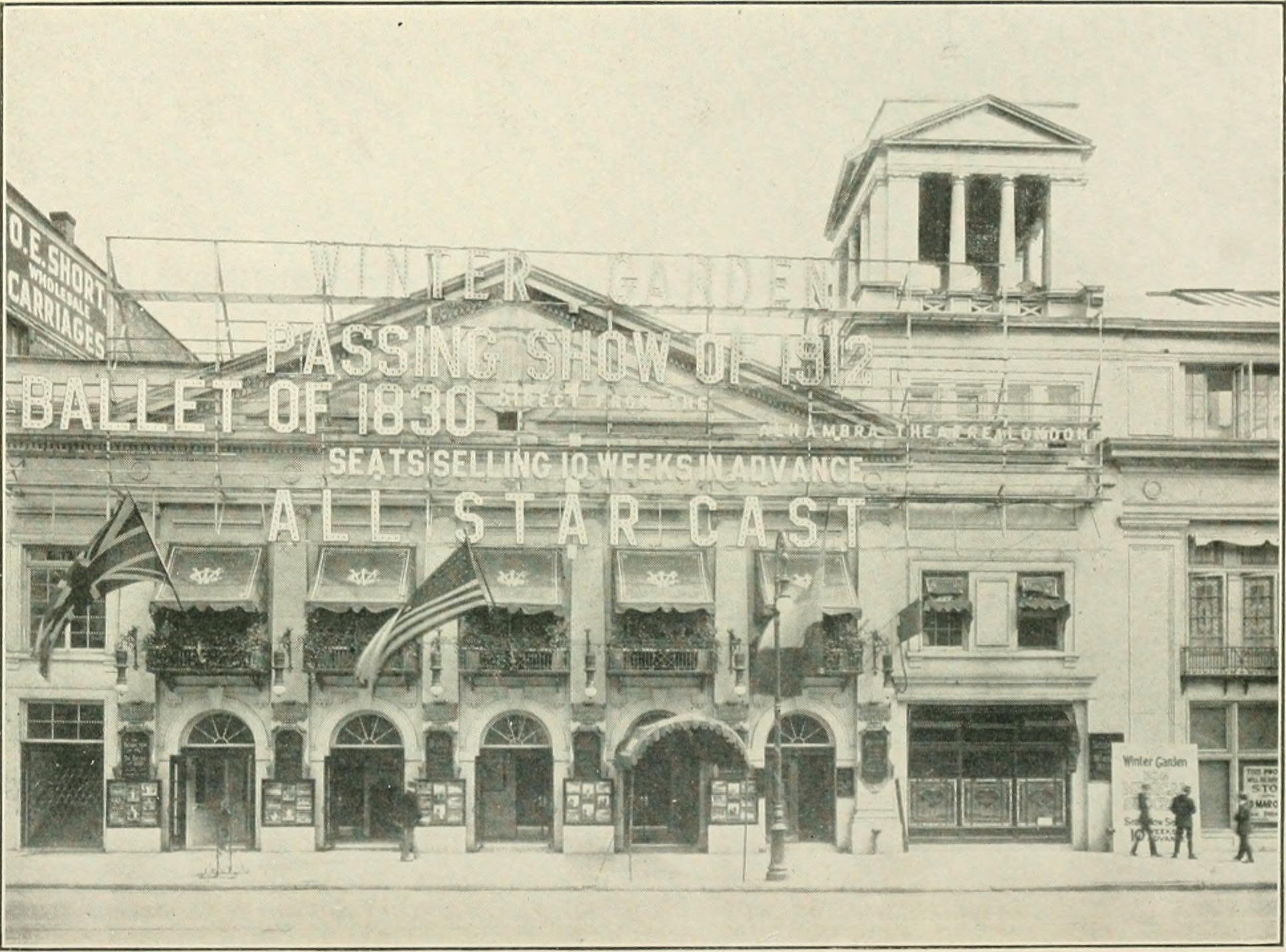 Title: Our theatres to-day and yesterday Year: 1913 (1910s) Authors: Dimmick, Ruth Crosby Subjects: Theater -- New York (State) New York Publisher: New York : The H.K. Fly Company Text Appearing Before Image: ' Text Appearing After Image: CHAPTER XV.ANOTHER HAMMERSTEIN VENTURE. The Manhattan Opera House, situated on the north side of Thirty-fourth street, between Eighth and Ninth avenues, was erected by Oscar Hammerstein at a cost of $2,000,000, 1906 and opened December 3, 1905, with a performance ofI Puritani, with Bonci in the tenor role- This eifortwas undoubtedly Hammersteins biggest achievement, and thoughfor several years it was run in opposition to the MetropolitanOpera House as a home of grand opera, it was not a financialsuccess and at the close of the 1909-10 season Hammerstein soldhis interests to the Metropolitan Company, agreeing not to pro-duce opera again in New York. For a time the house shelteredvaudeville, though recently dramatic offerings, chiefly those play-ing return engagements, have appeared here. A fact rather amus-ing in connection with the building of the Manhattan OperaHouse is that the details of construction were arranged and car-ried out by Mr. Hammerstein on the steps and in the lobby of